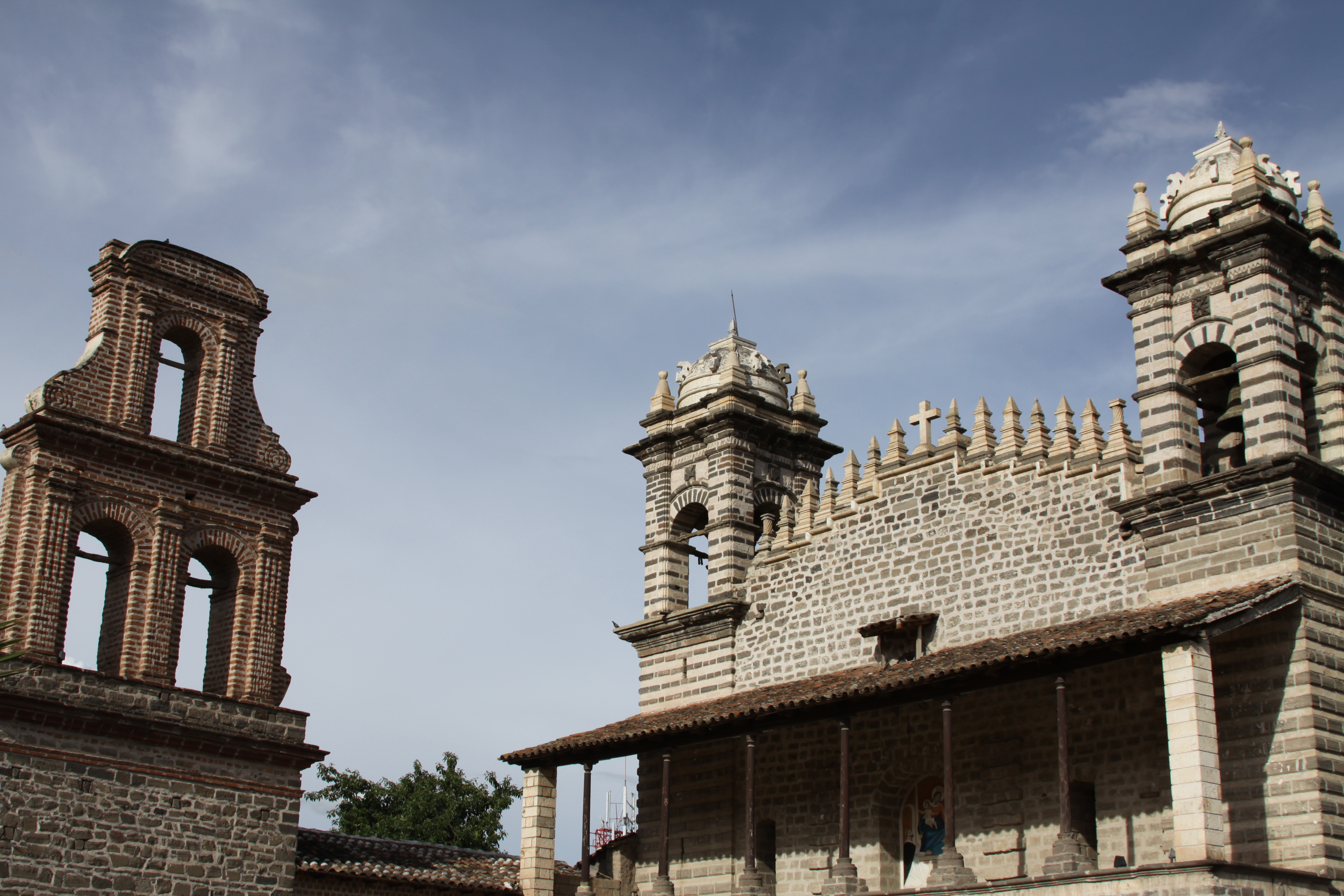 Church in Ayacucho-Peru